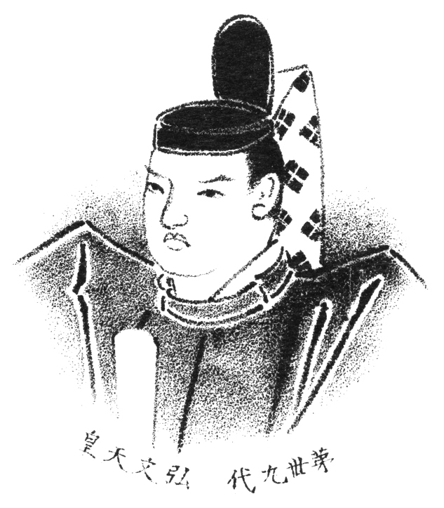 Emperor Kōbun(or Prince Ōtomo), who was the 39th emperor of Japan